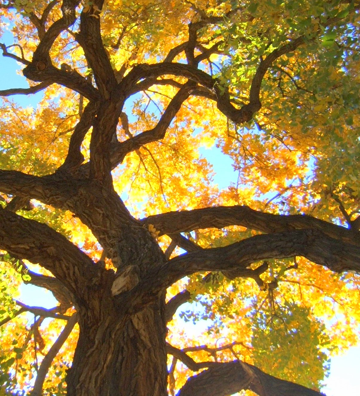 A Cottonwood tree in the fall, Albuquerque, New Mexico.